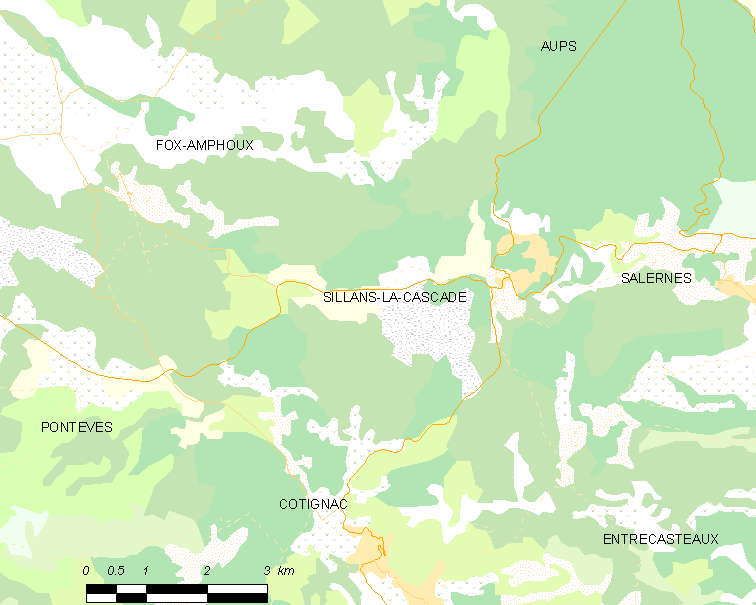 Map of French municipality Sillans-la-Cascade